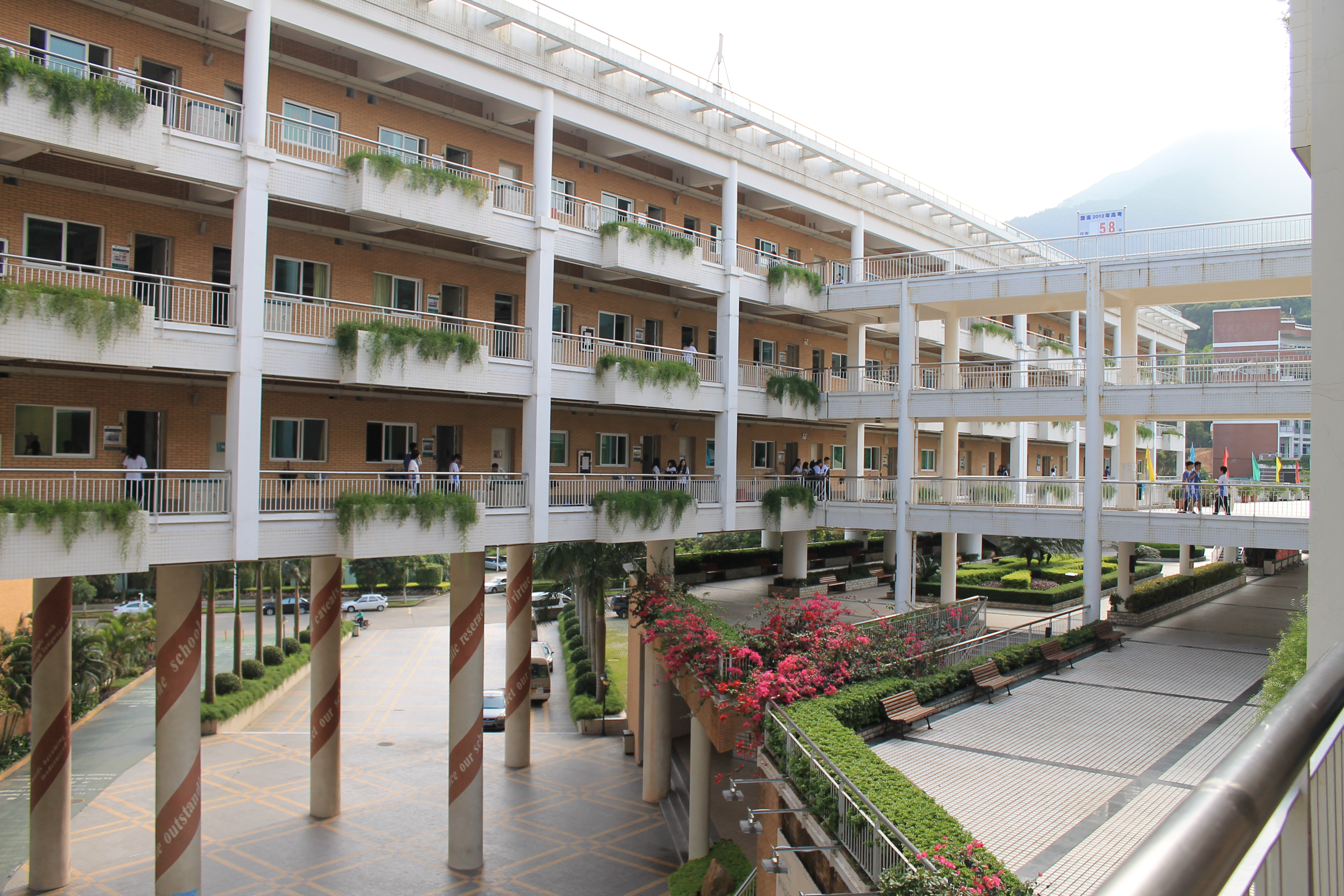 Shenzhen Foreign Language School Teaching Block